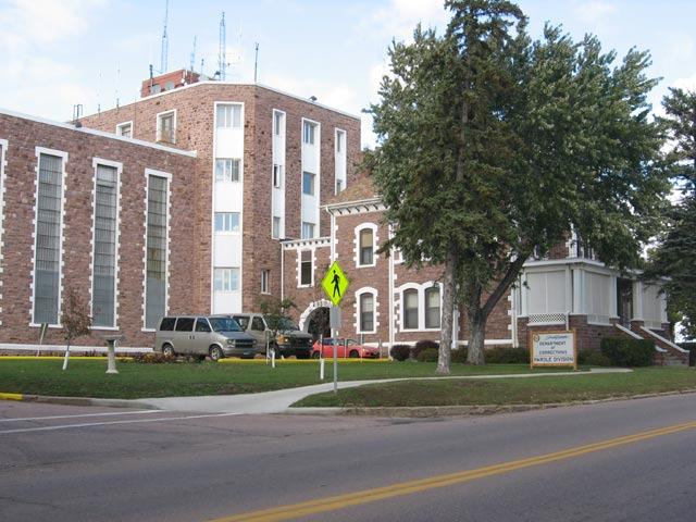 View of the South Dakota State Penitentiary in Sioux Falls, South Dakota, USA.